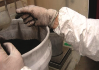 Figure 6. Make sure that the coveralls and gloves do not allow nanomaterials to contact the skin.